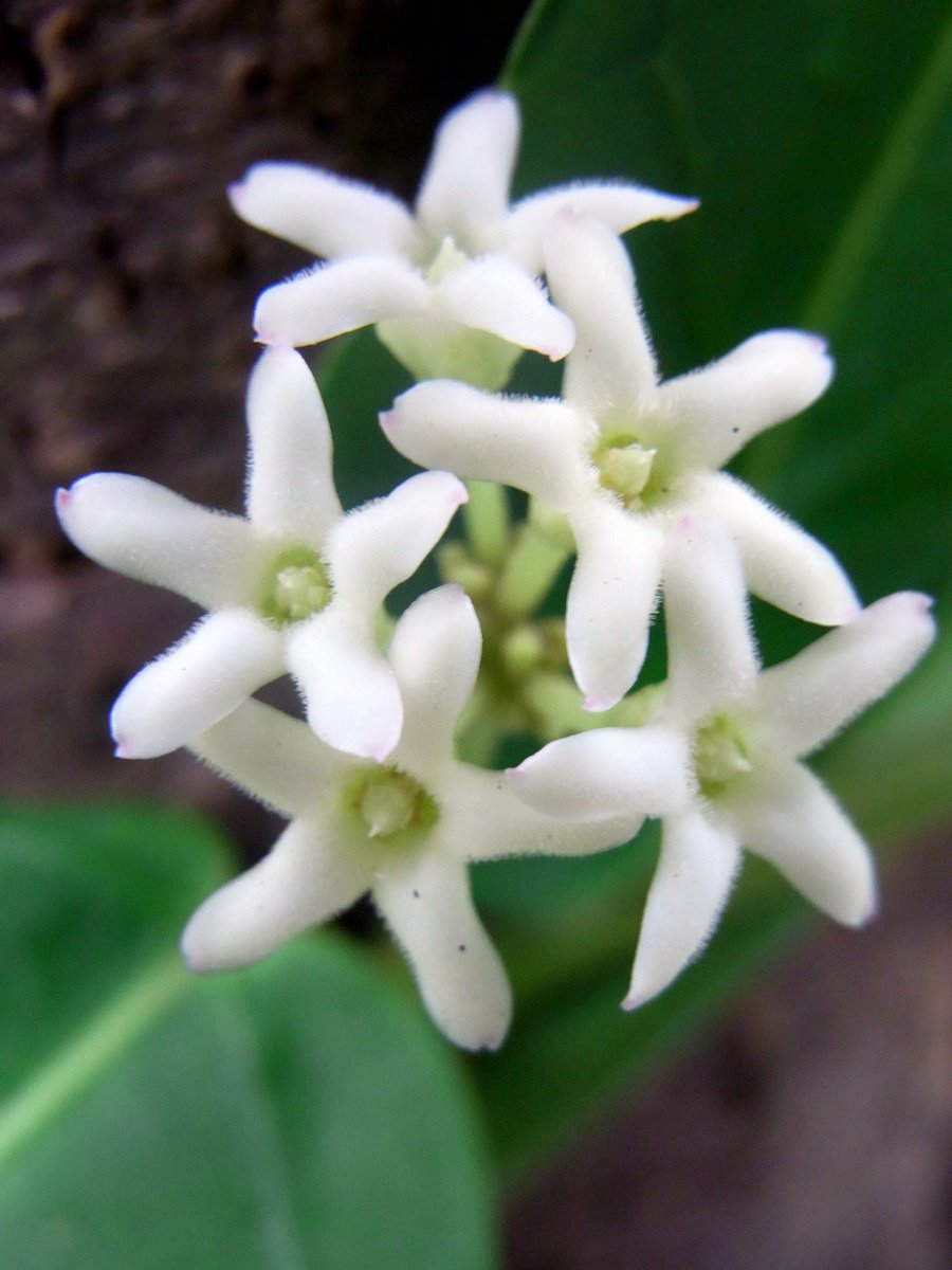 flowering small vine, Chatswood West, Australia. Leaves and flowers seemed to indicate Marsdenia suaveolens